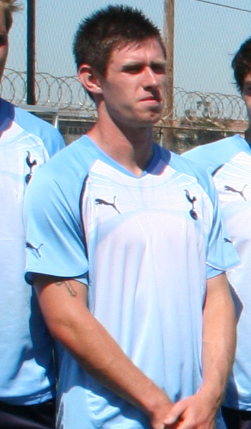 Players of Tottenham Hostpur posing with San Francisco 49ers' Alex Smith and Joe Staley